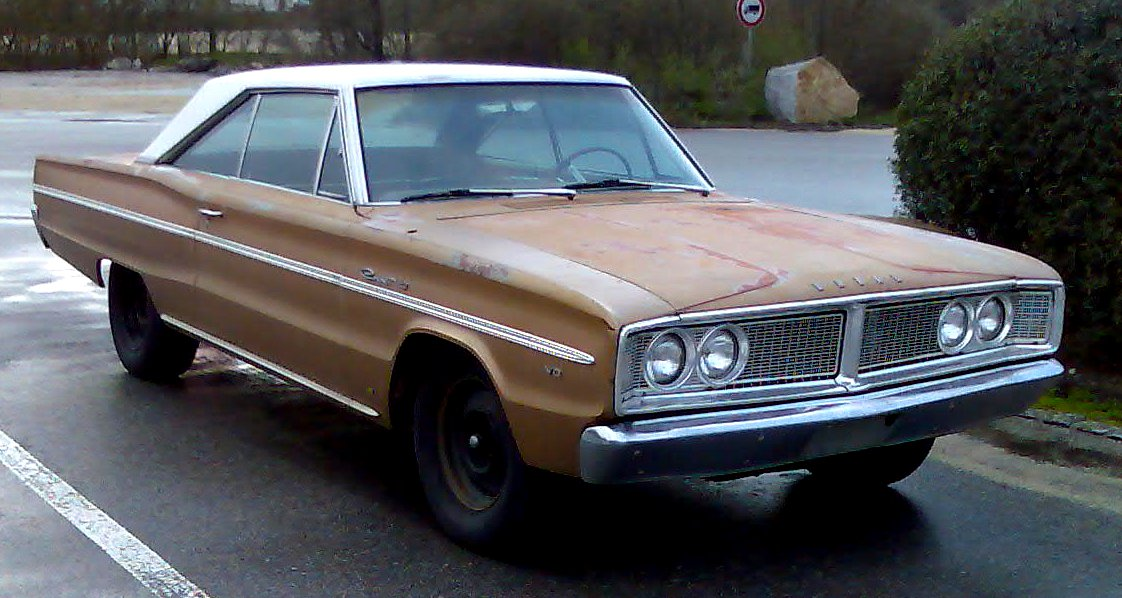 Dodge_Comet_Barn_Find_